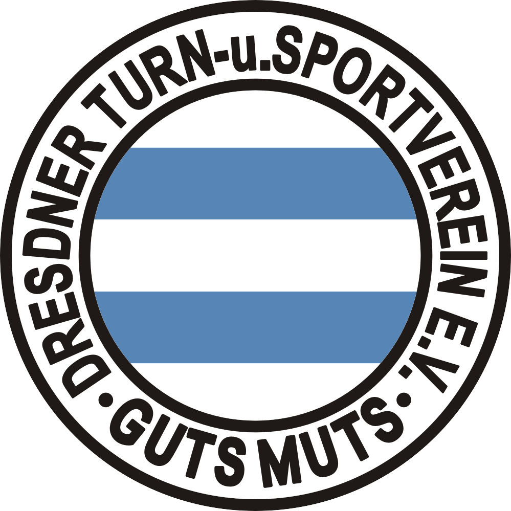 Logo of former german sportclub Guts Muts Dresden (used 1920 - 1945)